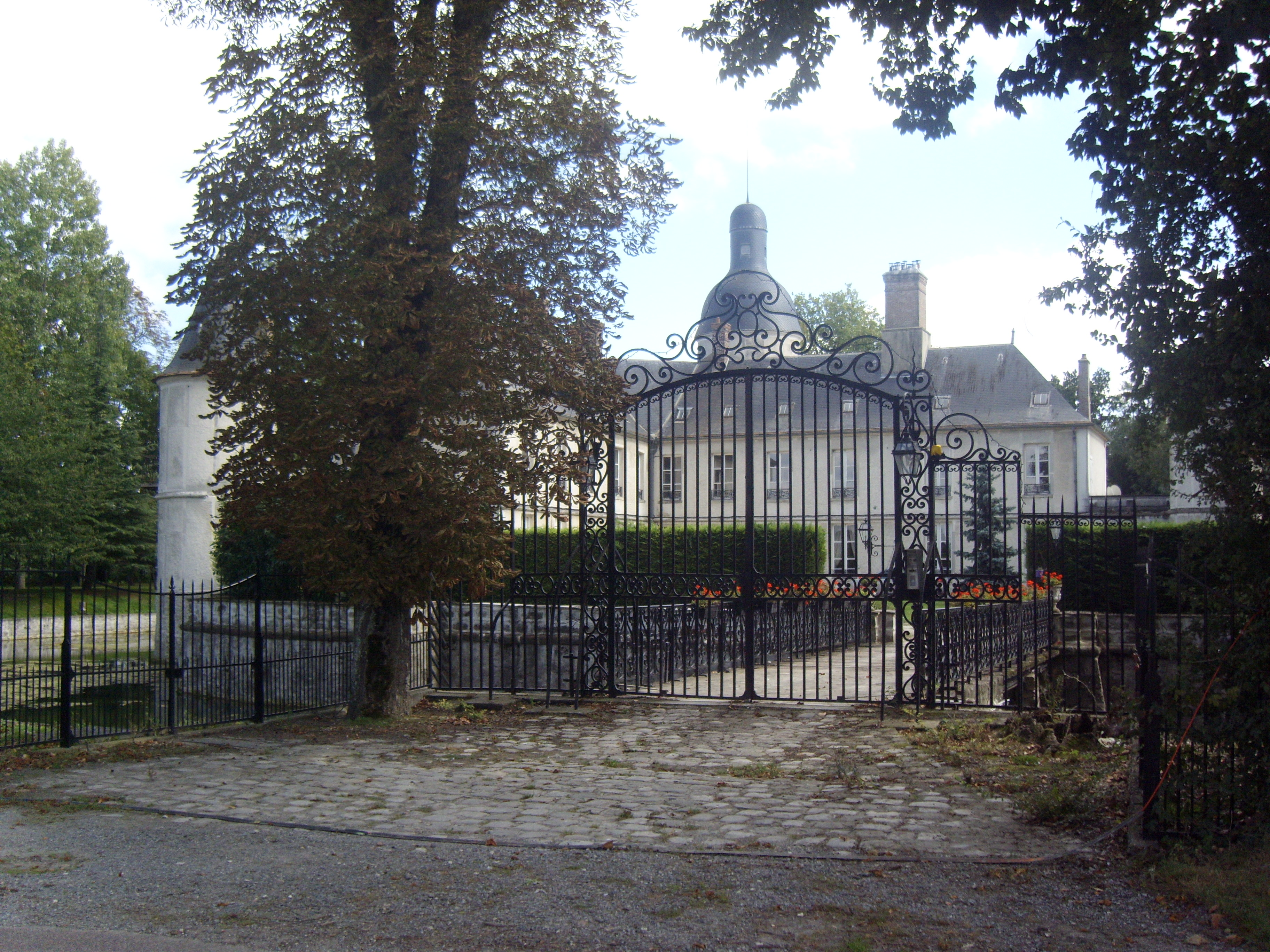 Castle of Vigneau in Jouy-le-Châtel